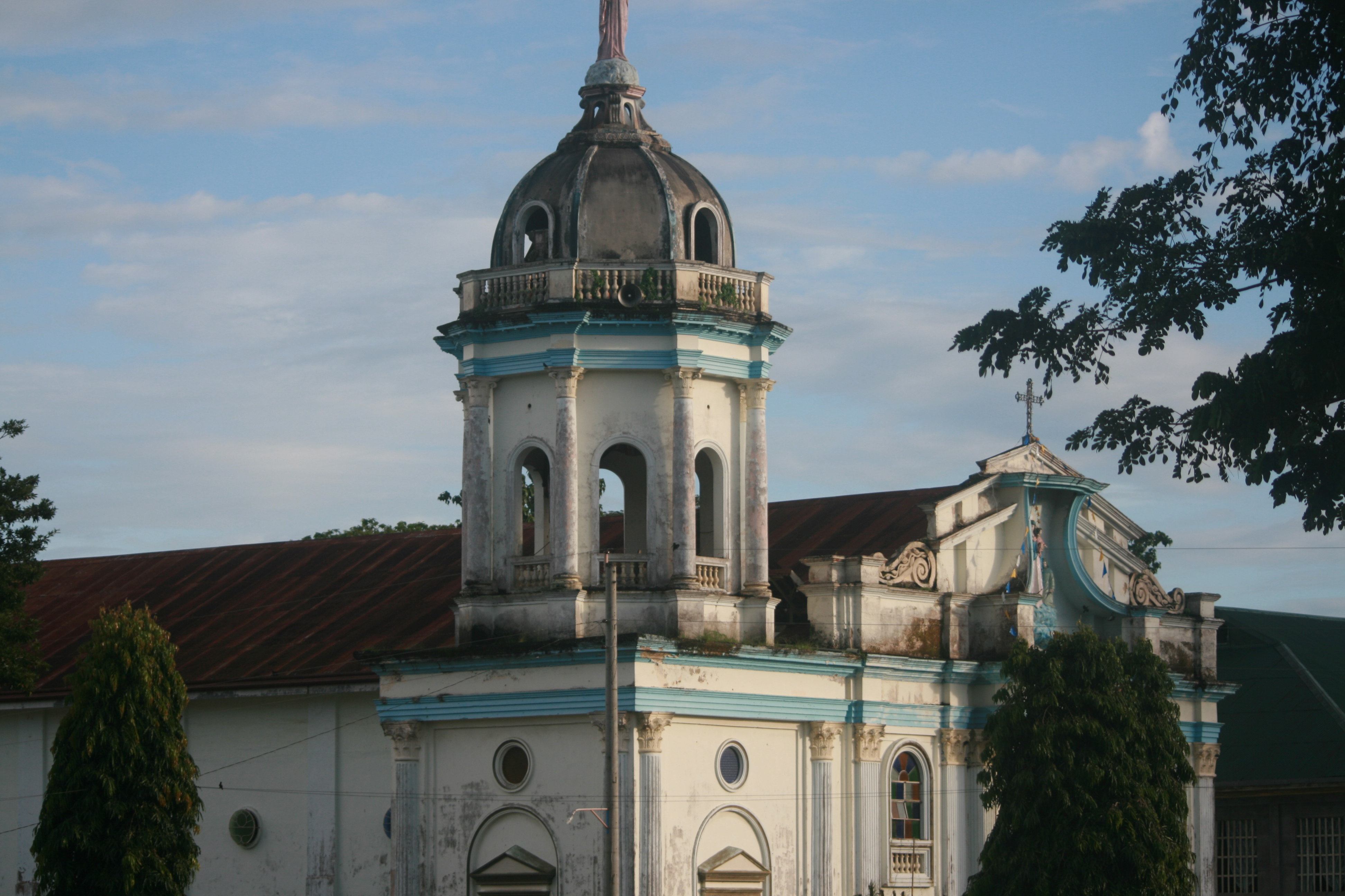 View of church of Antequera, Bohol